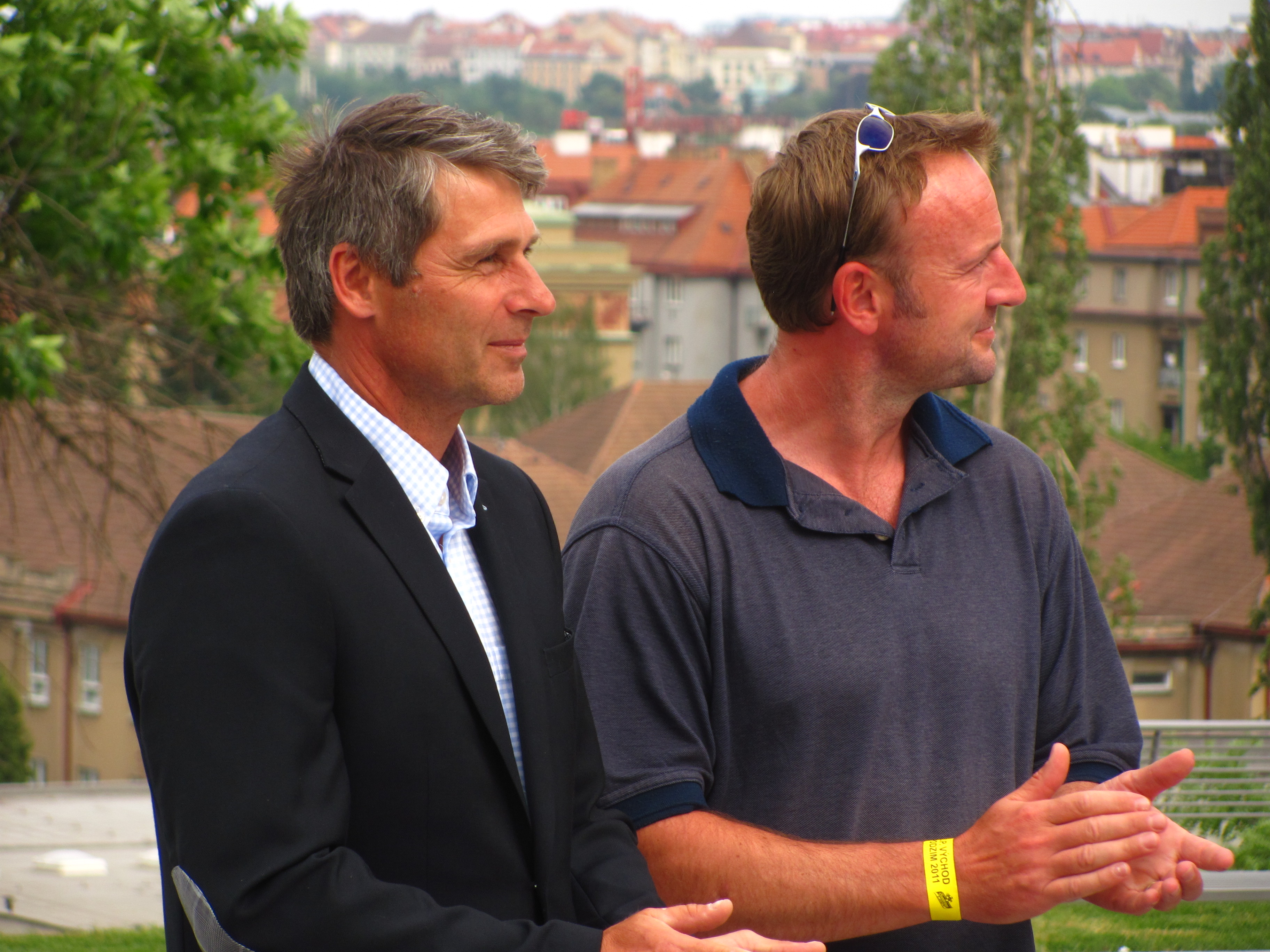 Jan Železný (left) and Tomáš Dvořák, Czech athletes (2012)